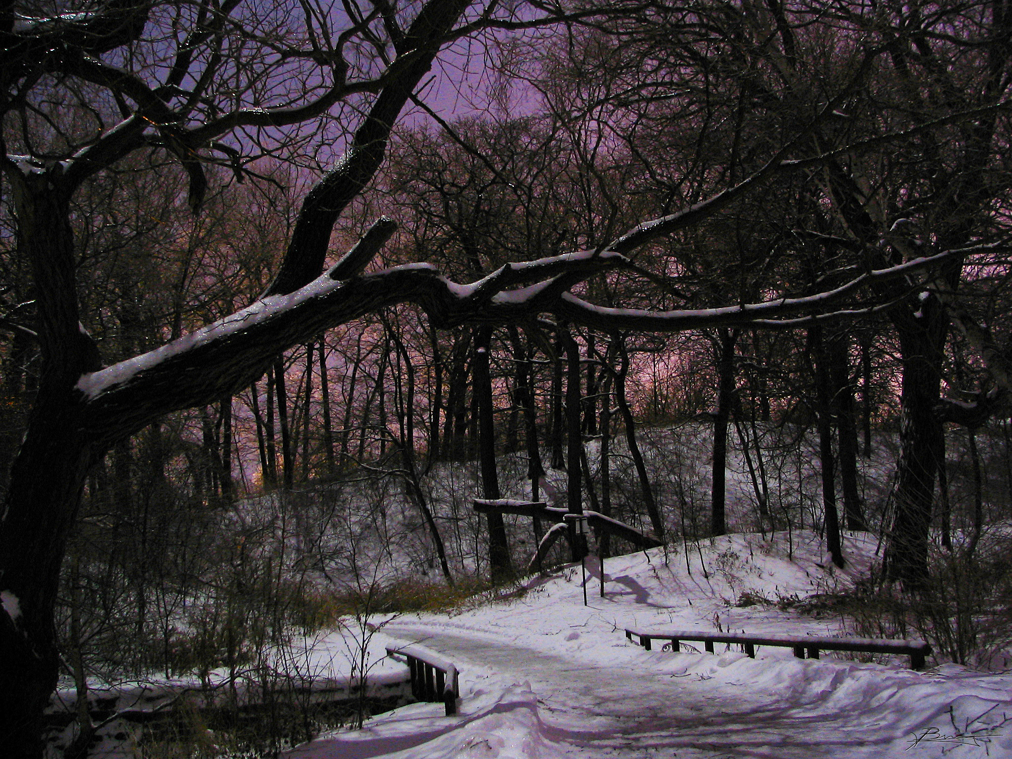 High Park, Toronto; Canon PowerShot S1 IS